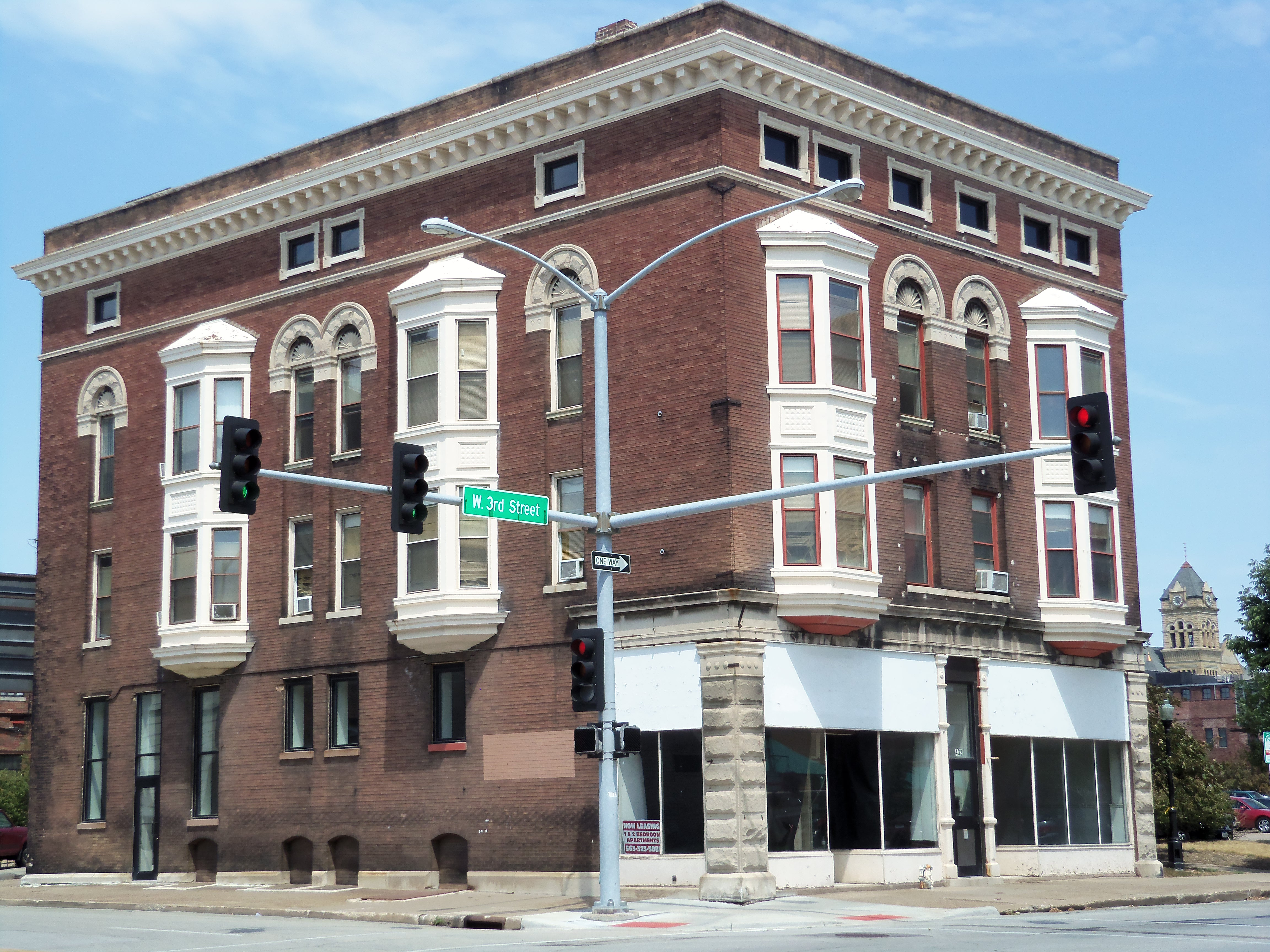 The Ficke Building in the West Third Street Historic District in Davenport, Iowa